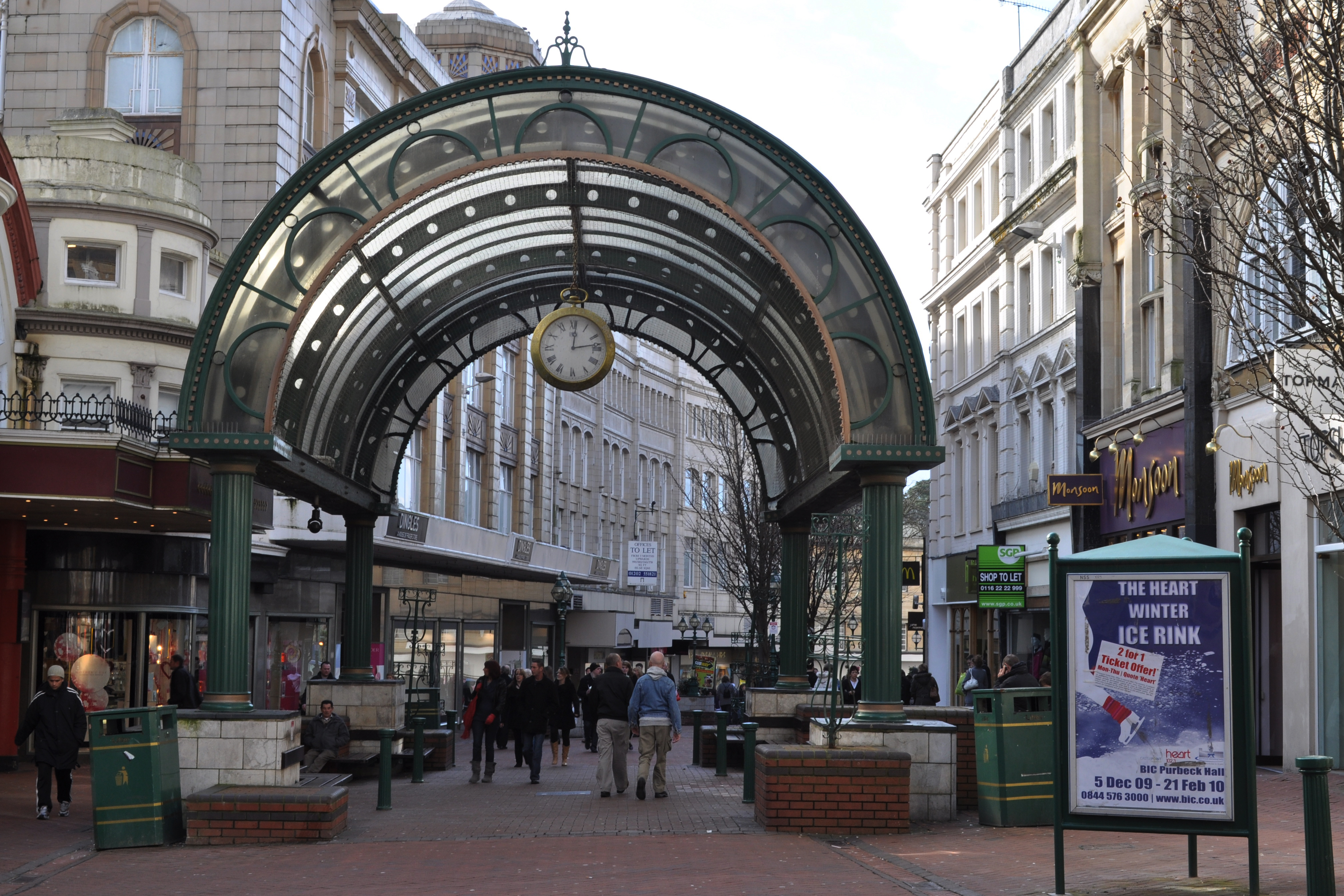 Bournemouth, Dorset, England, 2010. (Photo: Rafaela Ely)